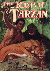 Dust-jacket illutration for The Beasts of Tarzan by Edgar Rice Burroughs for illustration of an article